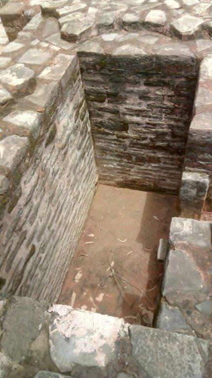 Some meditation cells to accommodate a person can be seen in the excavations.